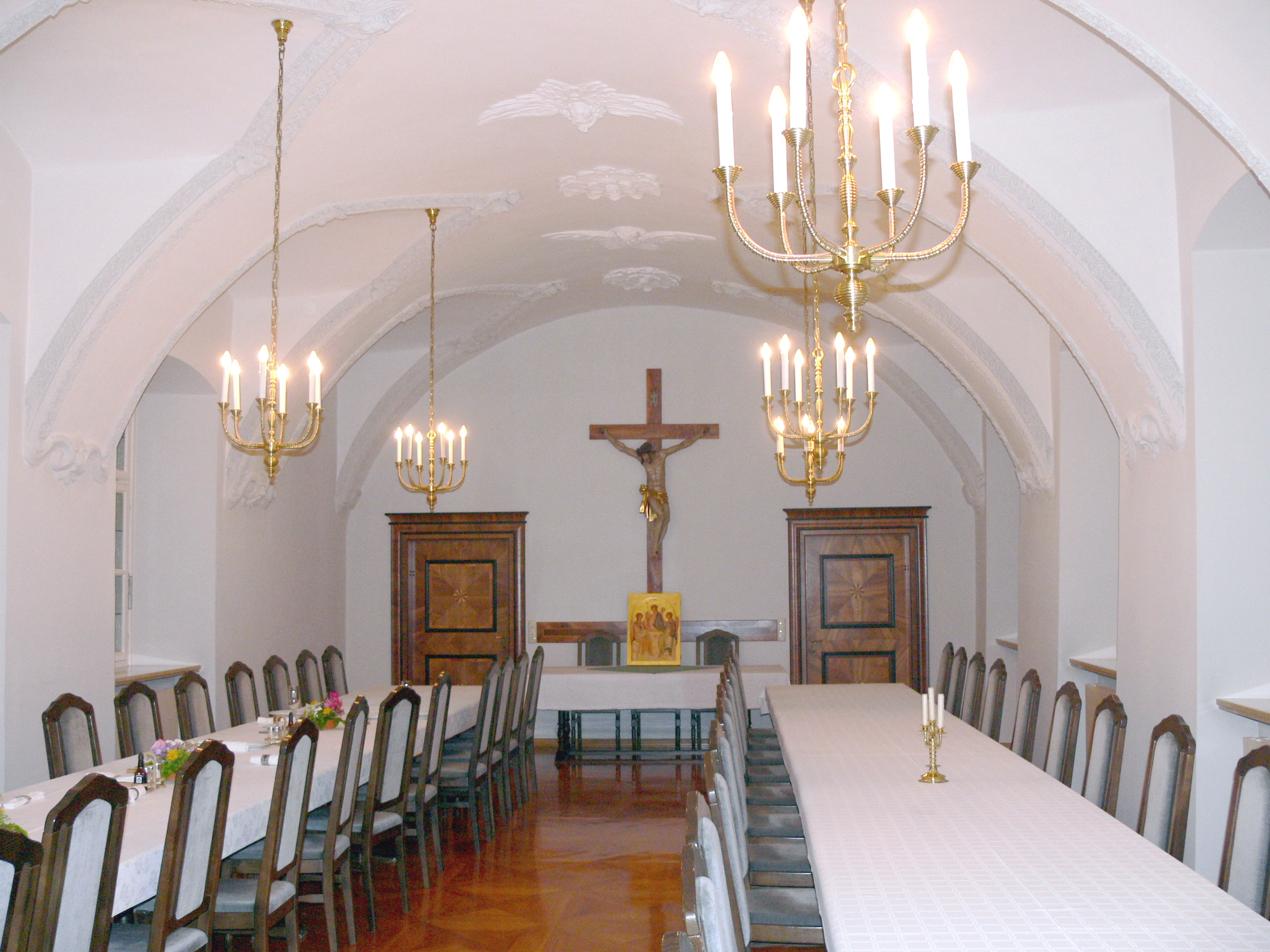 Schlägl ( Upper Austria ). Refectory ( 1612 ).